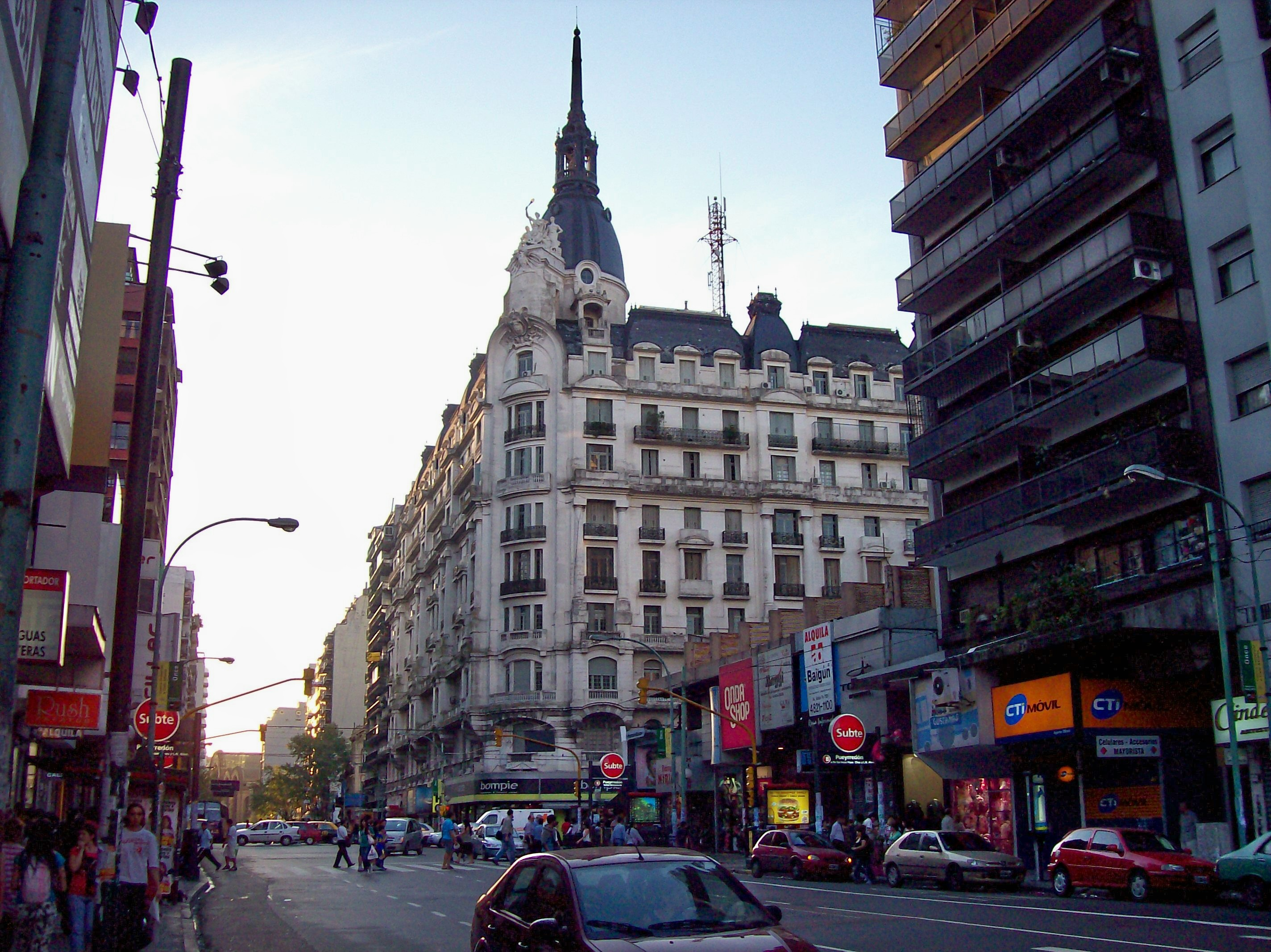 View of Corrientes Avenue and the Pueyrredón Avenue intersection, in the Balvanera section of Buenos Aires. The building in the center is the Caja Internacional Mutua de Pensiones ("International Mutual Pension Fund"), designed by Gastón Mallet and Jacques Dunant and completed in 1908.